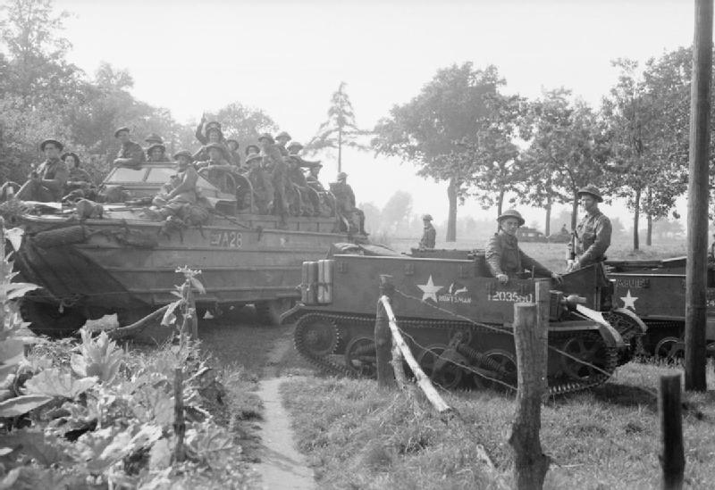 The British Army in North-west Europe 1944-45 DUKW and Universal carriers of 5th Duke of Cornwall's Light Infantry, 43rd Division, Holland, 18 September 1944.